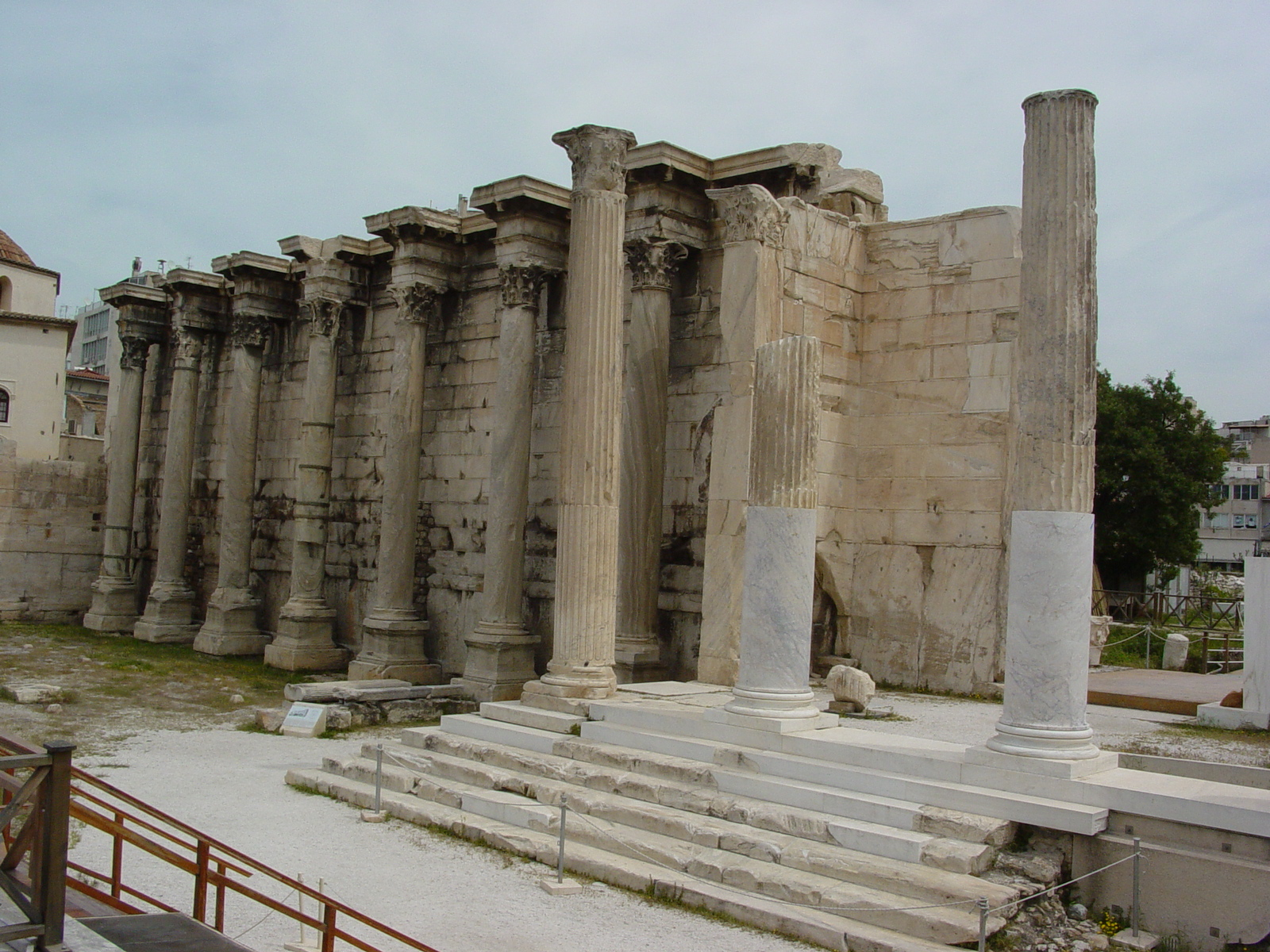 Library of Hadrian. Photo taken by contributor GreyElfGT while on tour in Athens, Greece.